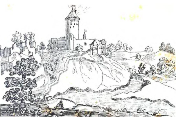 This is an old military sketch of Zvečaj castle in Croatia.